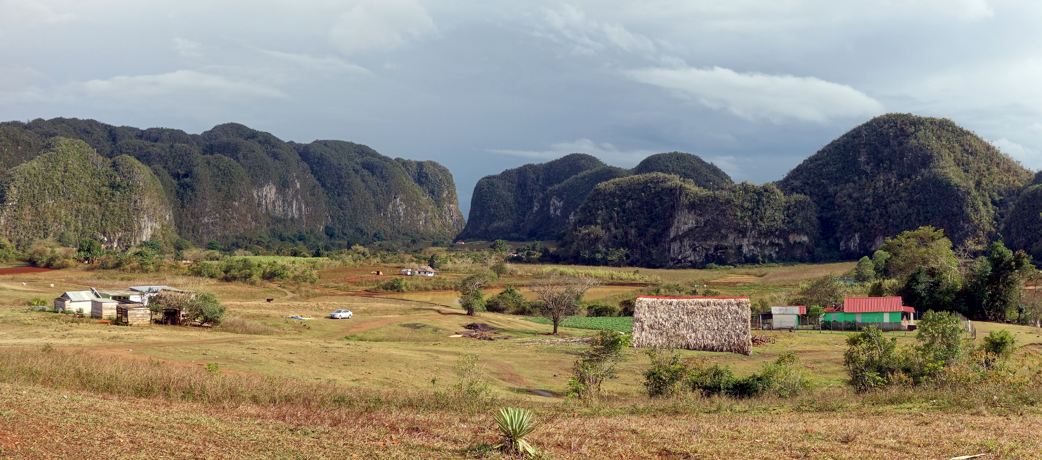 View over the mogotes in Viñales Valley, Cuba.